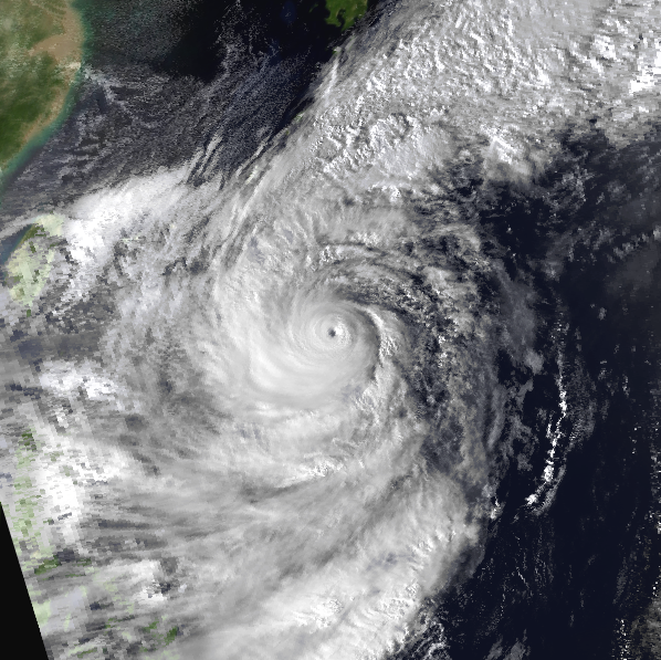 Image of Typhoon Vanessa of the 1984 Pacific typhoon season on October 28, 1984.